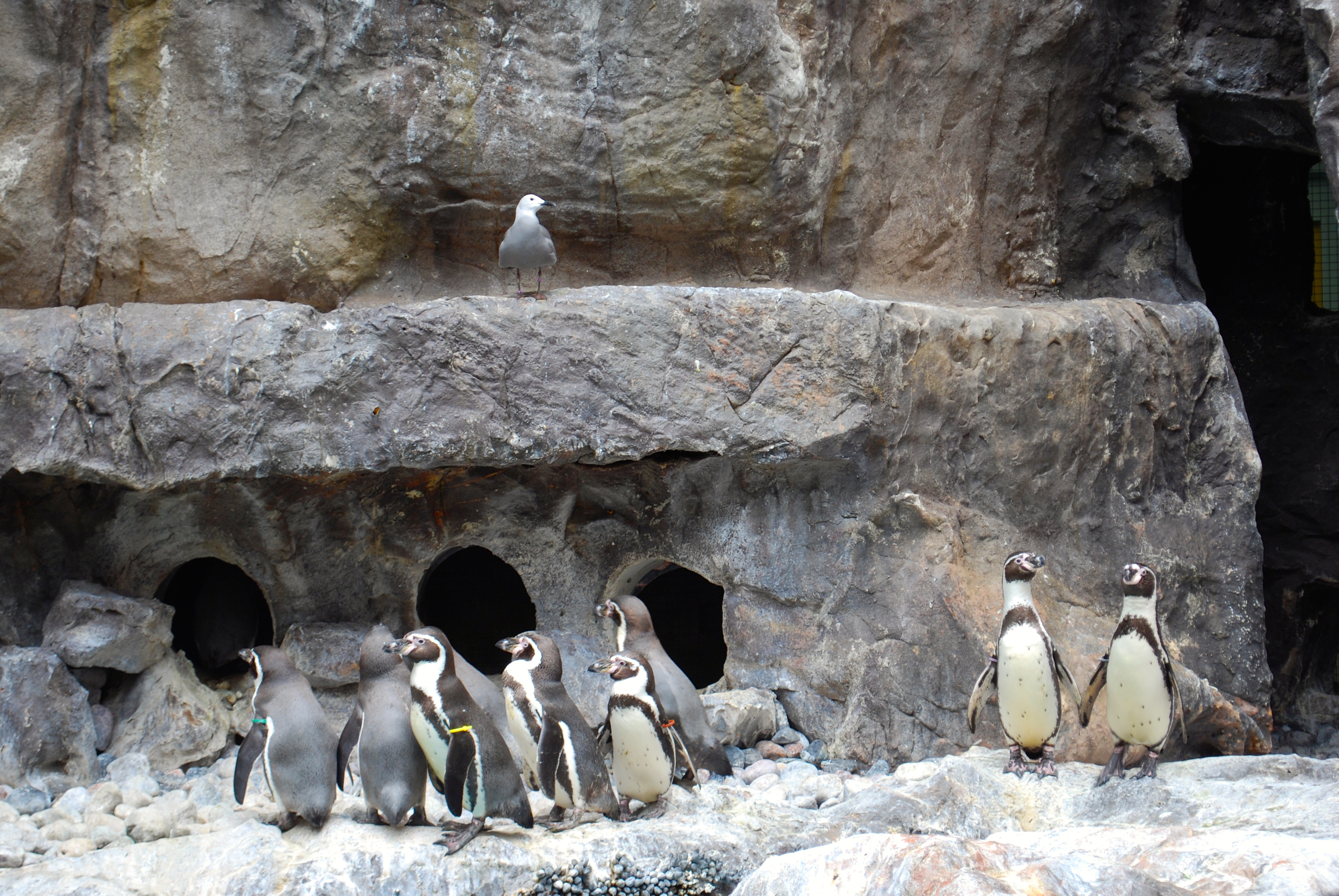 Humboldt Penguins spheniscus humboldti in captivity at Brookfield Zoo Brookfield, IL